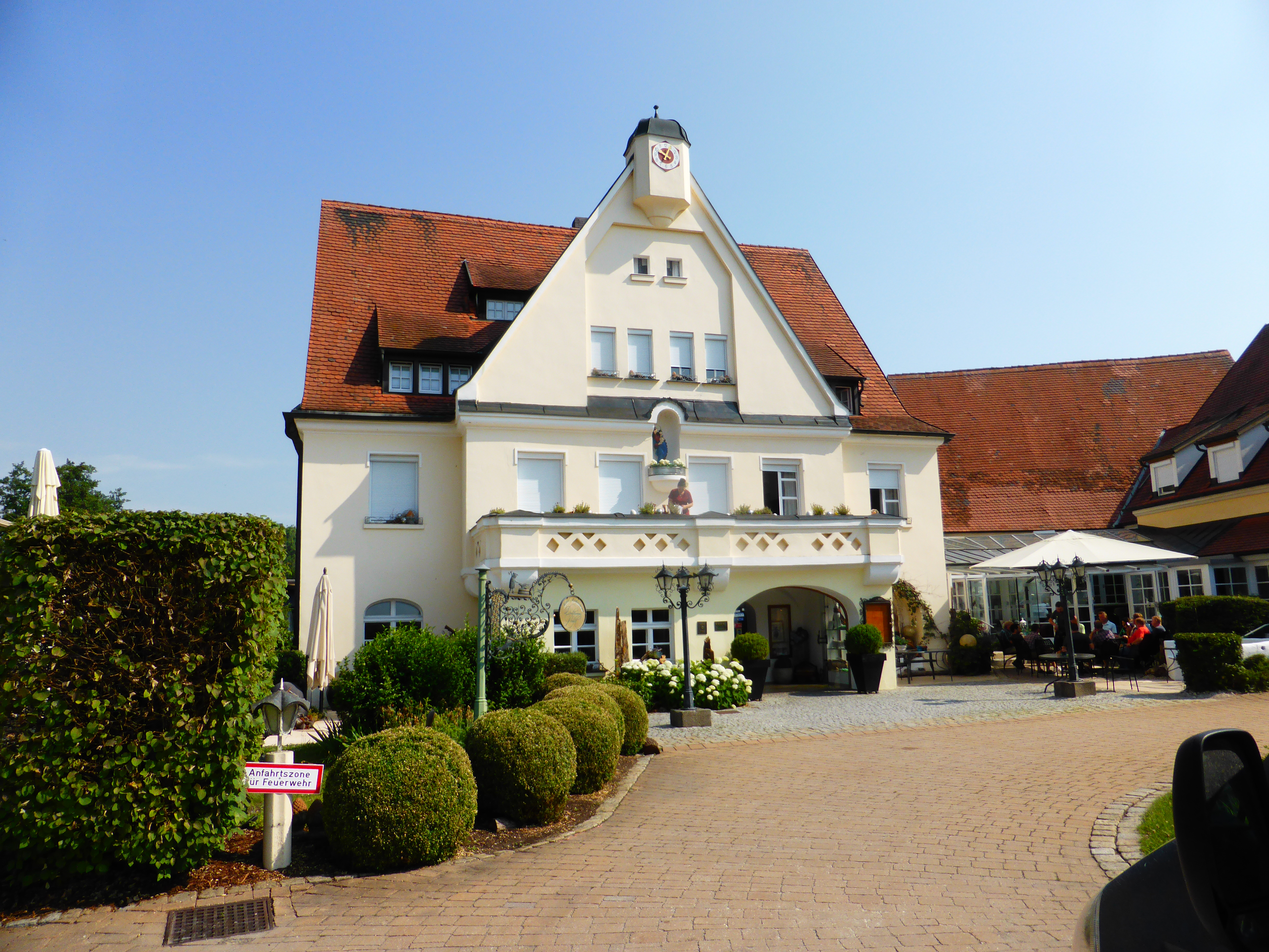 Hotel Drahthammer Schlöß'l in Amberg